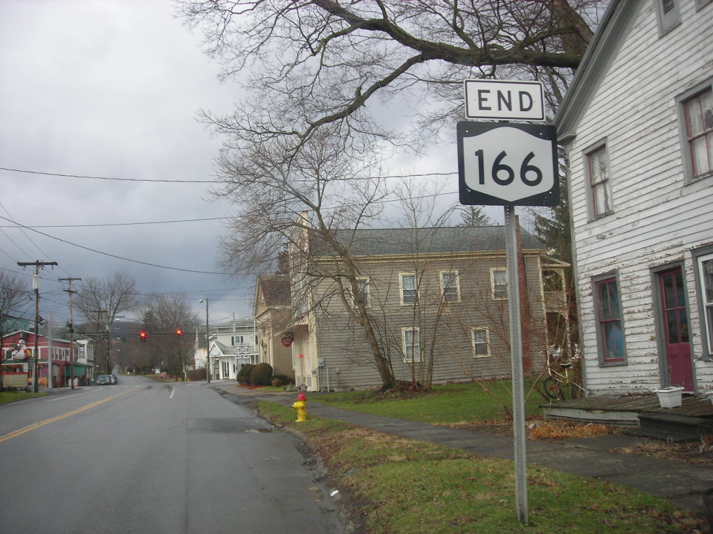 New York State Route 166 heading westbound towards its western terminus at NY 28 in Milford.